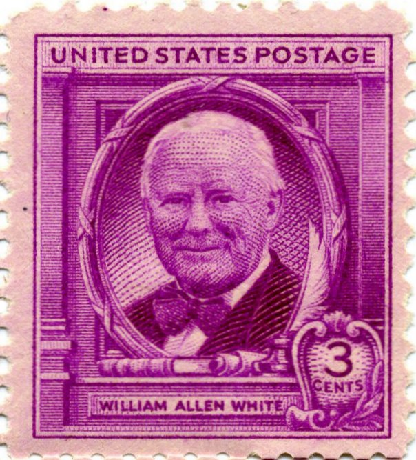 William Allen White, newspaper publisher of Emporia, Kansas, commemorated in US postage stamp of 1948.